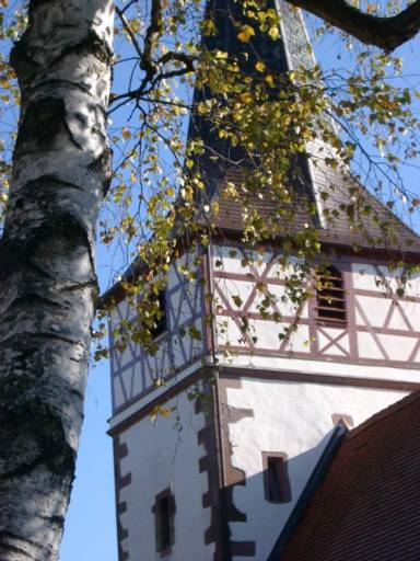 Speyrer Kirche, church building in Ditzingen (Germany)